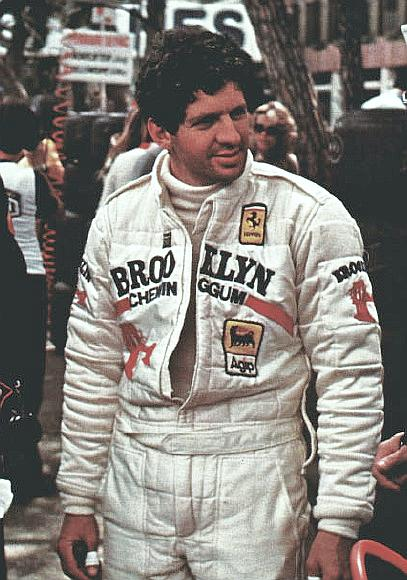 South African winner of the 1979 Monaco Grand Prix, Jody Scheckter.